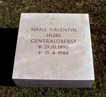 grave of Hans Valentin Hube (1944), replacement stone from 2000